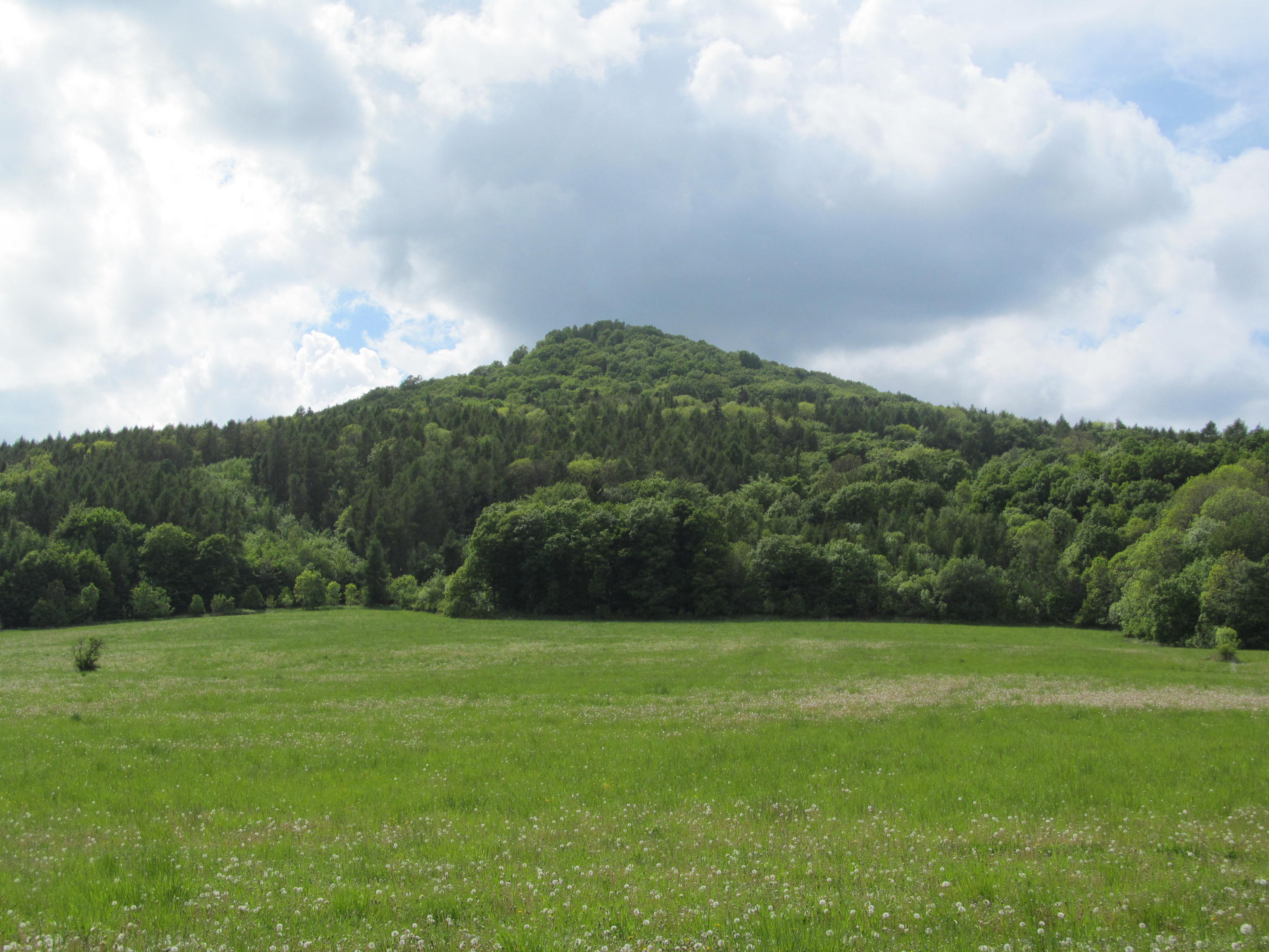 Kletečná hill